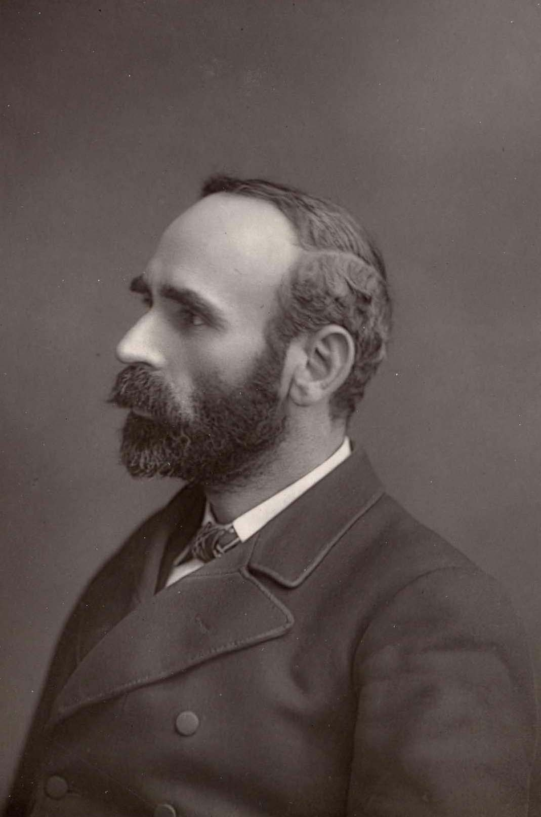 Portrait of Michael Davitt